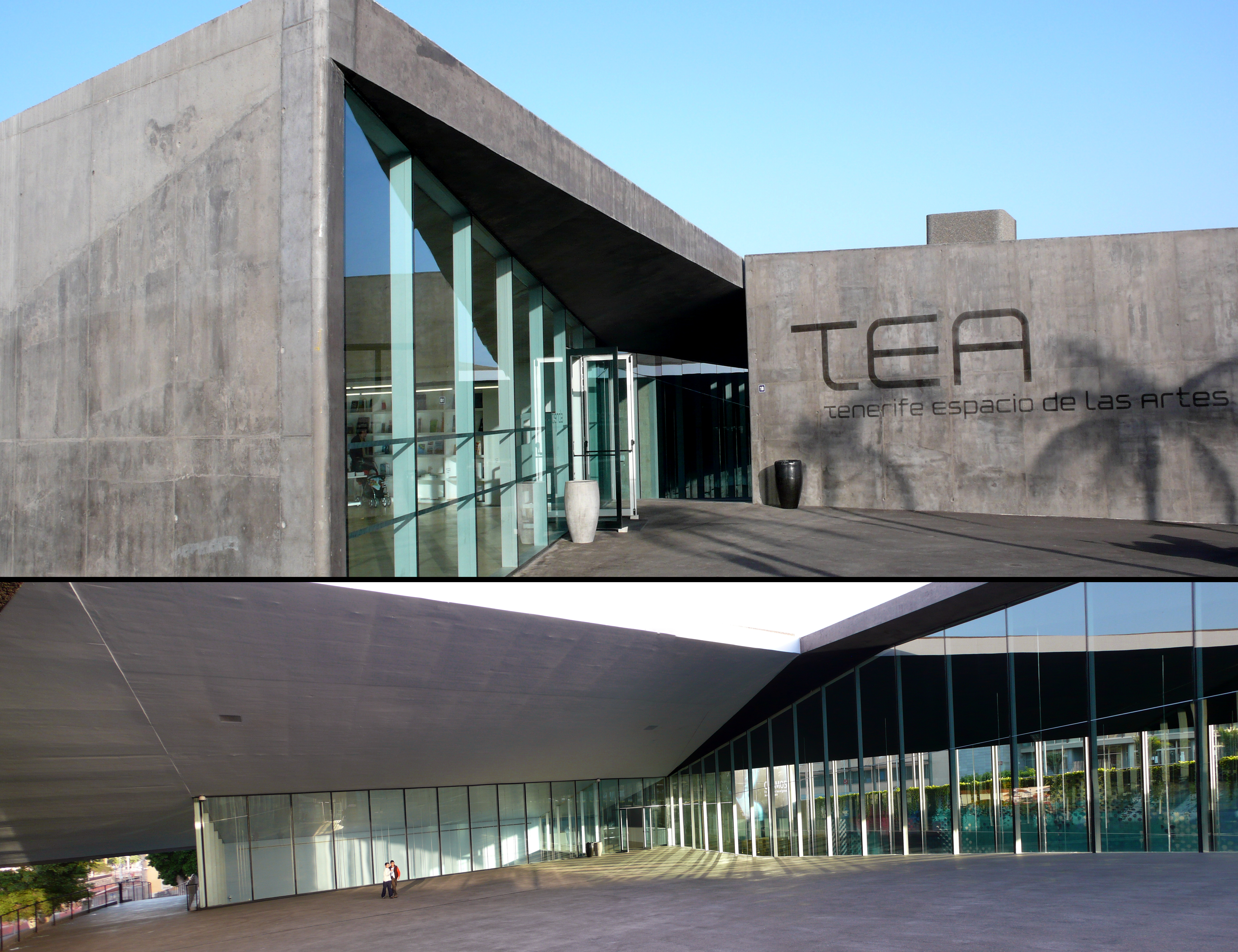 Main entrance and inner yard of TEA (Tenerife Espacio de las Artes)